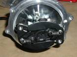 This is Distributor weights. It is mechanical spark advancing mechanism that is called a "Governor".